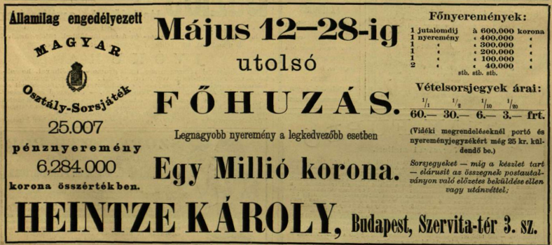 Lottery advertisement